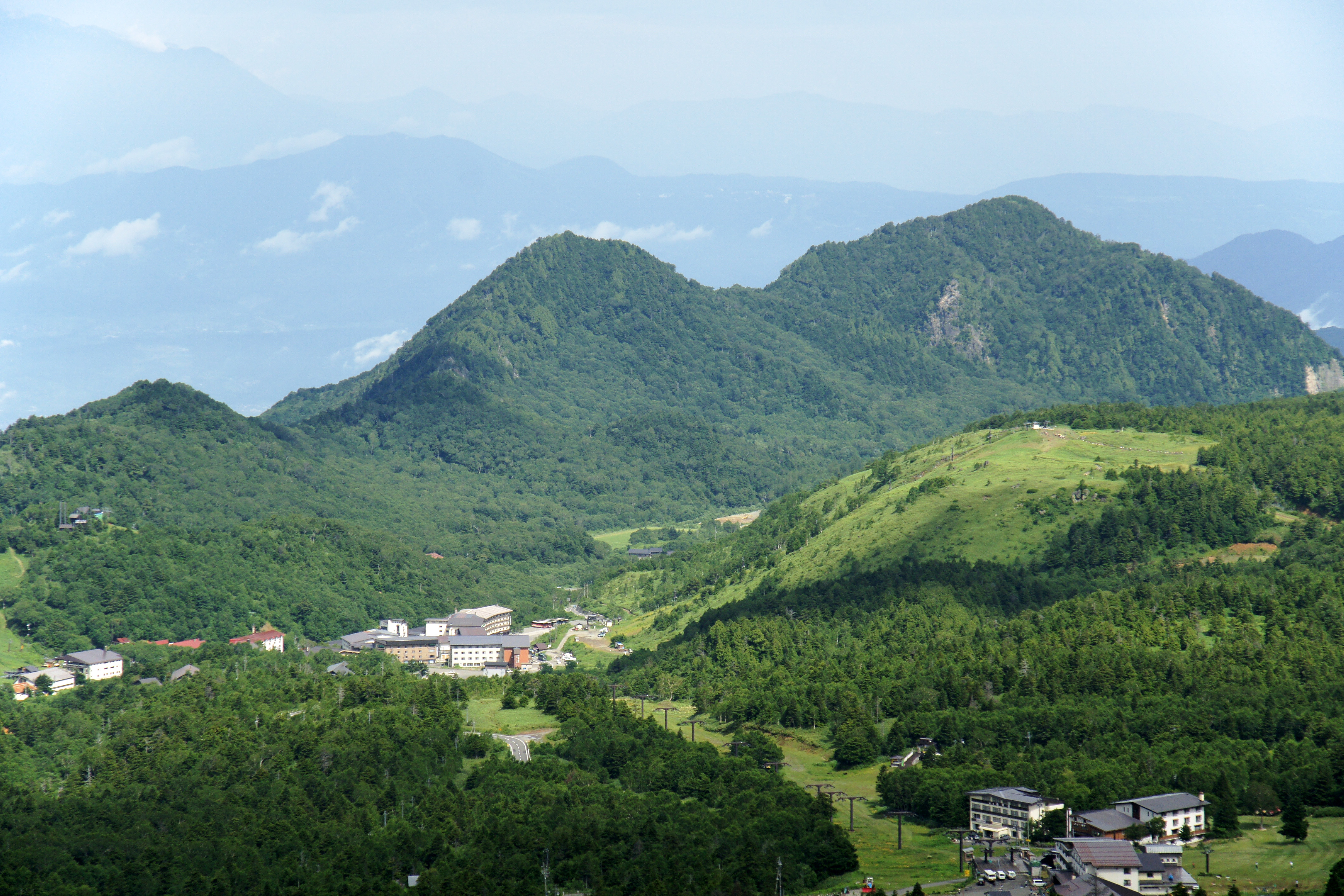 Shiga Kogen from Nozoki, Yamanouchi, Nagano prefecture, Japan.